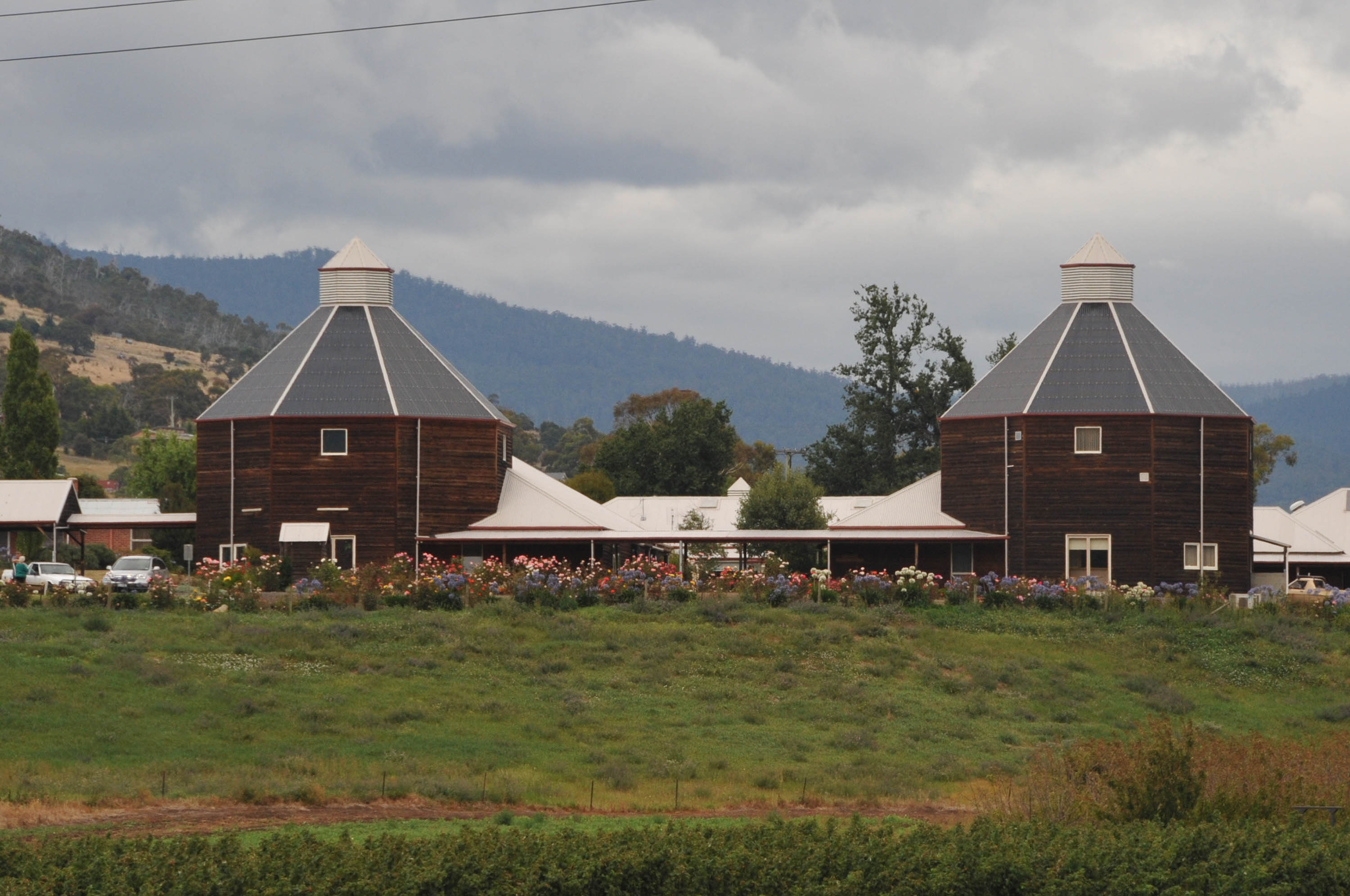 NEW NORFOLK IS THE CENTER OF THE HOPS GROWING AREA OF TASMANIA. HOPS ARE STORED IN OAST HOUSES